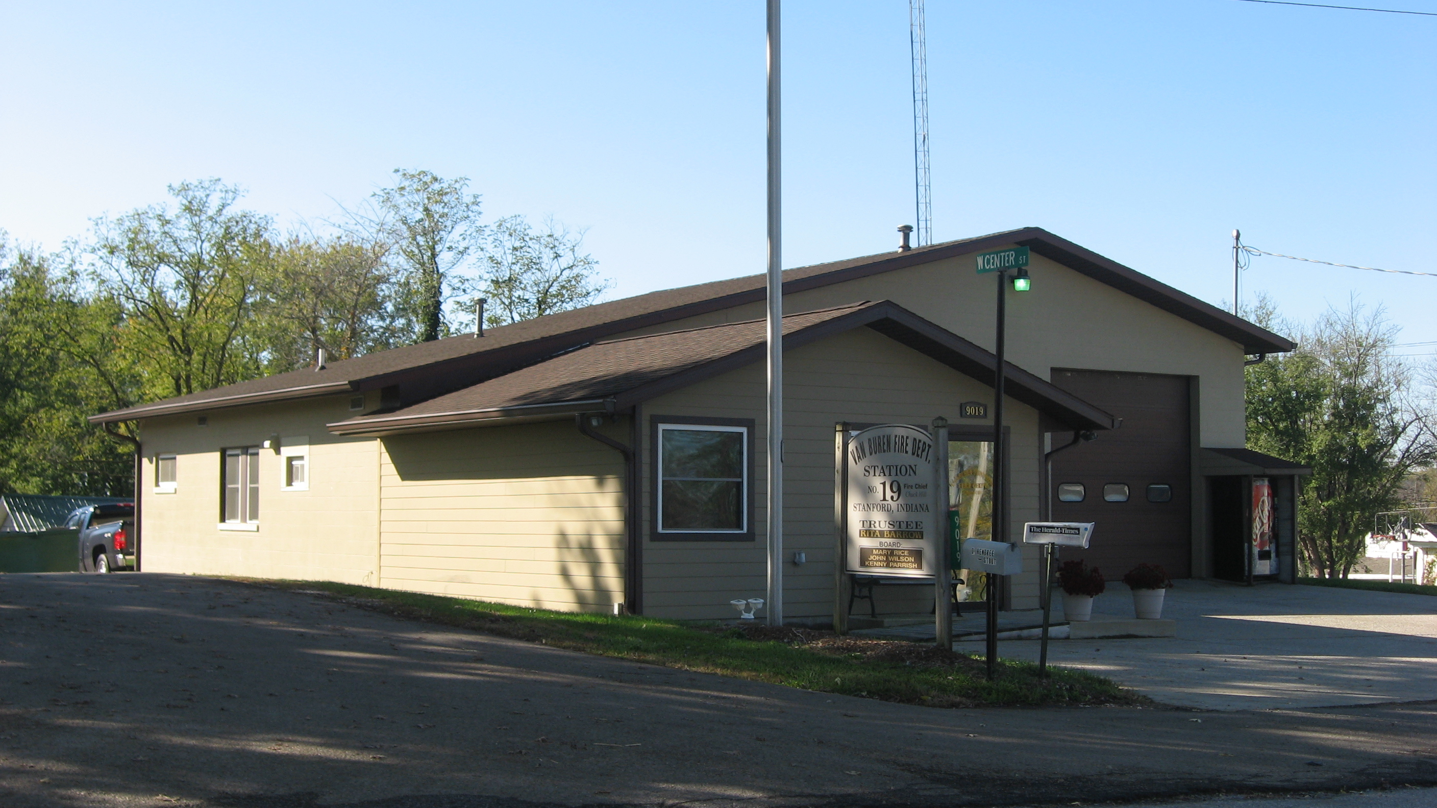 Front of the Van Buren Township hall and fire station, located at 9019 W. Hinds Road in Stanford, Indiana, United States. It was built in 1986.